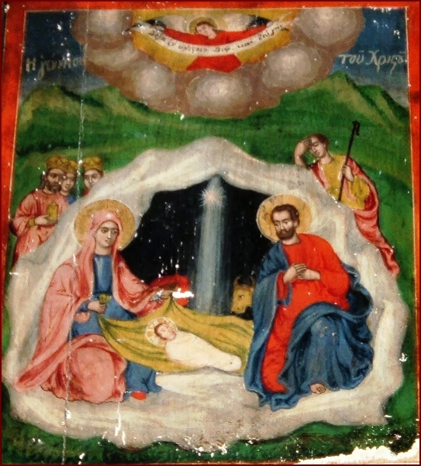 Nativity Icon Ano Melas Statitsa